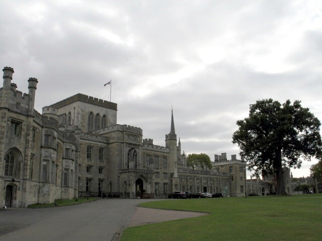 Ashridge House Ashridge House is one of the largest Gothic Revival country houses in England and is Grade I. listed. The House stands on the site of Ashridge Priory, a medieval abbey founded by the Brothers of Penitence. Following the Dissolution of the Monasteries, the building eventually became the private residence of Princess Elizabeth - later Elizabeth I. - and it was here that she was arrested in 1552 under suspicion of treason. In 1604 the priory was acquired by Sir Thomas Egerton. A descendant of his, the 3rd Duke of Bridgewater - he of canal-building fame - demolished the old buildings but did not live to see his plans for the House completed. His successor, the 7th Earl of Bridgewater, commissioned James Wyatt to build the present neo-gothic building as his home: it was completed in 1813. In 1921 the House was acquired by a trust established by Andrew Bonar Law, a former Prime Minister. In 1959 it became a management training college, and it continues in that role today with its own degree-awarding powers and an international reputation.